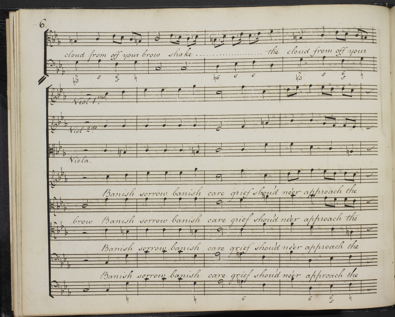 Dido and Aeneas. In the hand of Edward Woodley Smith.